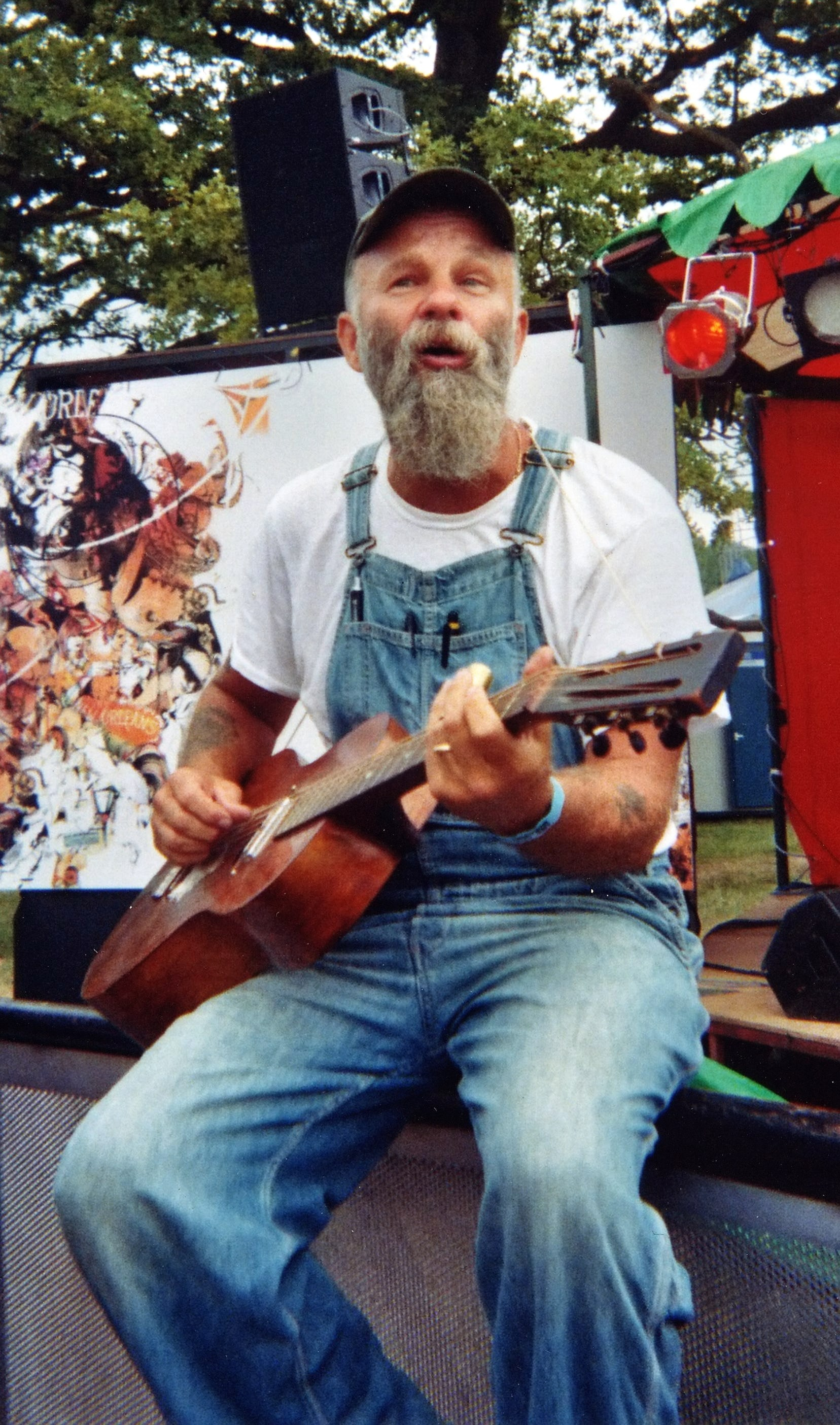 A photo of Seasick Steve, taken by me, Jim Hickson, at the Big Chill 2006.